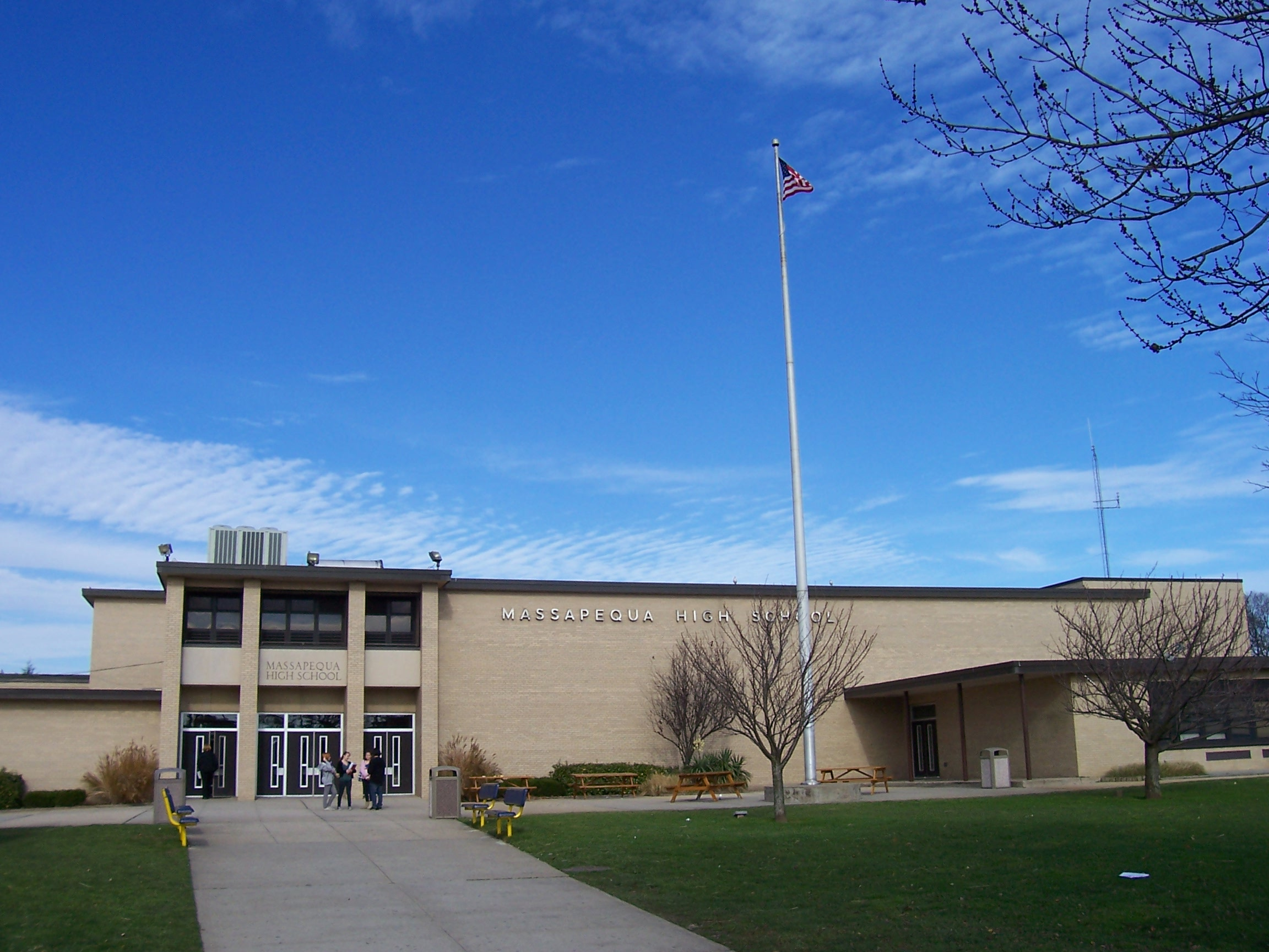 Massapequa High School, Masssapequa, New York